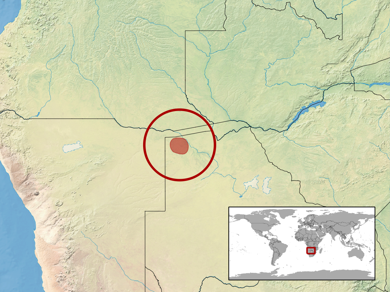 geographic distribution of Pachydactylus tsodiloensis (Native: Botswana)